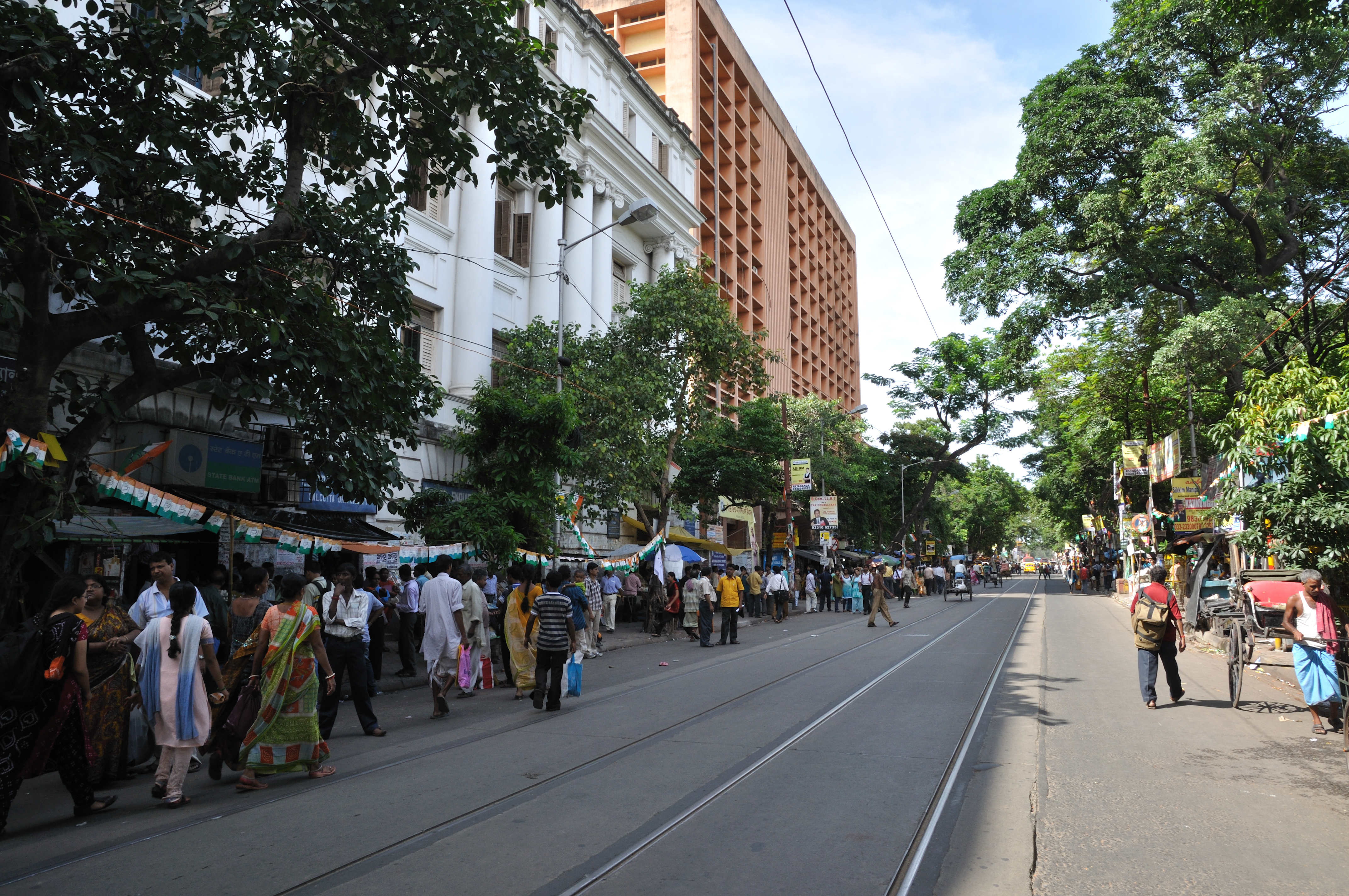 The College Street is most famous for its bookstores. It is the largest second-hand book market in the world and largest book market in India. University of Calcutta is seen at left.